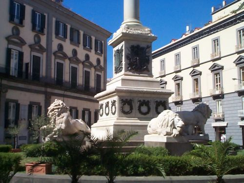 Private photo taken and uploaded by user Jeffmatt 08:42, 5 October 2006 (UTC). No rights claimed.